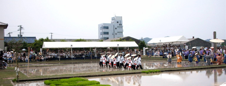 Rice planting for Izawa-no-miya Sanctuary of Kotaijingu(Naiku) at Ise city Mie Prf. Japan.